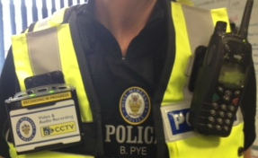 This month sees Wolverhampton officers using innovative new ‘lapel cameras’ in a bid to secure the strongest evidence possible in domestic abuse cases. Around 100 response officers have been trained to use the devices, which are also known as body worn video or badge cams, and are now wearing them out to calls. Officers will give a clear warning to offenders and other members of the public when switching the device on, letting people know that anything they say and do from that moment will be captured visually and audibly on video and that footage may be used as evidence and in court. The device is fitted to an officer’s jacket opposite their radio and clearly shows when the device is on and recording is in progress. The cameras have been funded from a domestic abuse budget with a view that they will prove integral to domestic abuse trials as they can capture clear visual and audio. Inspector Phil Rogers said: "We’re really excited to see the launch of these cameras across the city. They have proven invaluable in other forces when gaining evidence, especially in domestic abuses incidents. "For a court to see and hear the environment that the police officer walks into is far better than any verbal description in court."